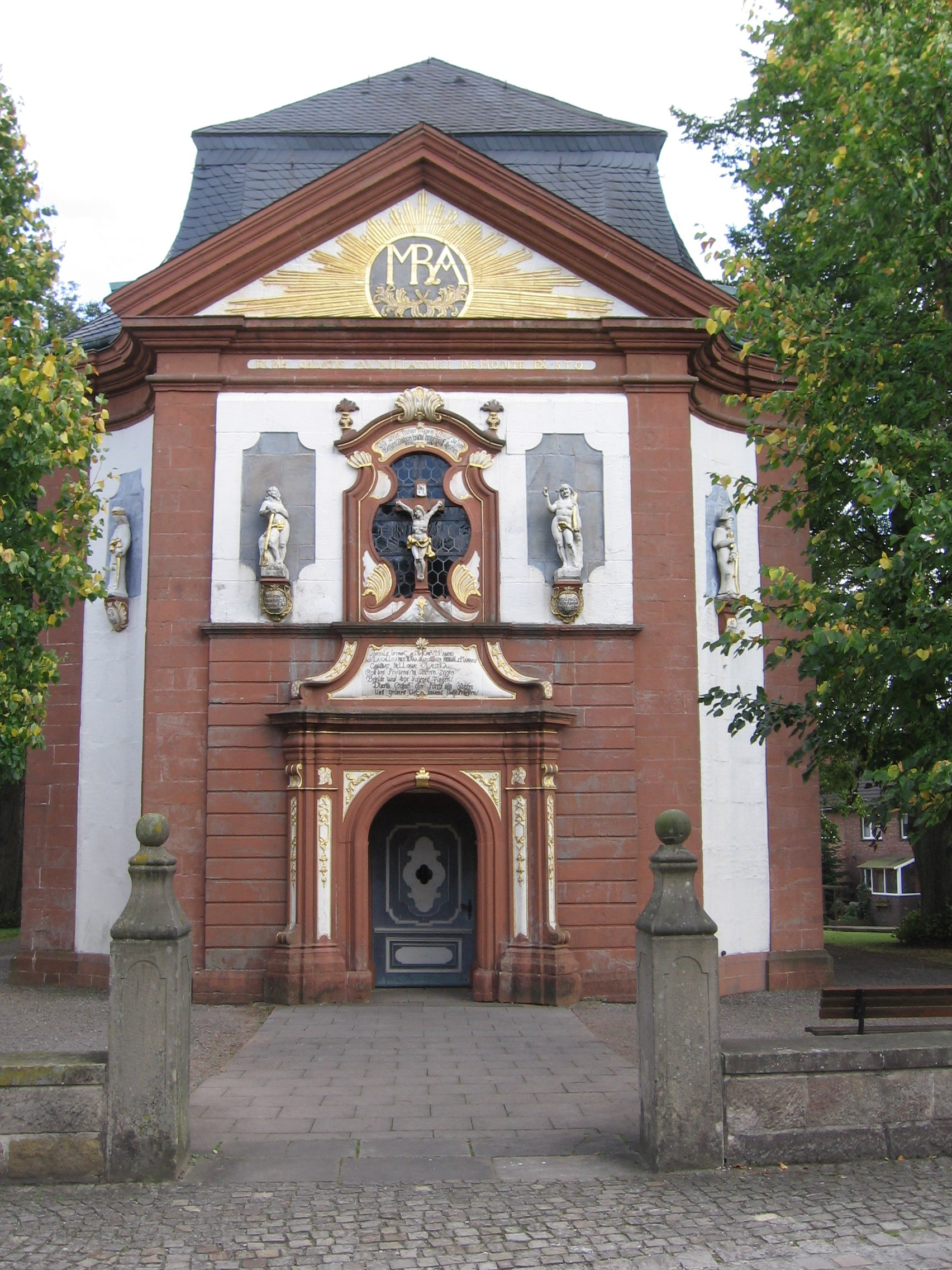 Church in Kleinenberg, Westphalia, Germany This is a photograph of an architectural monument.